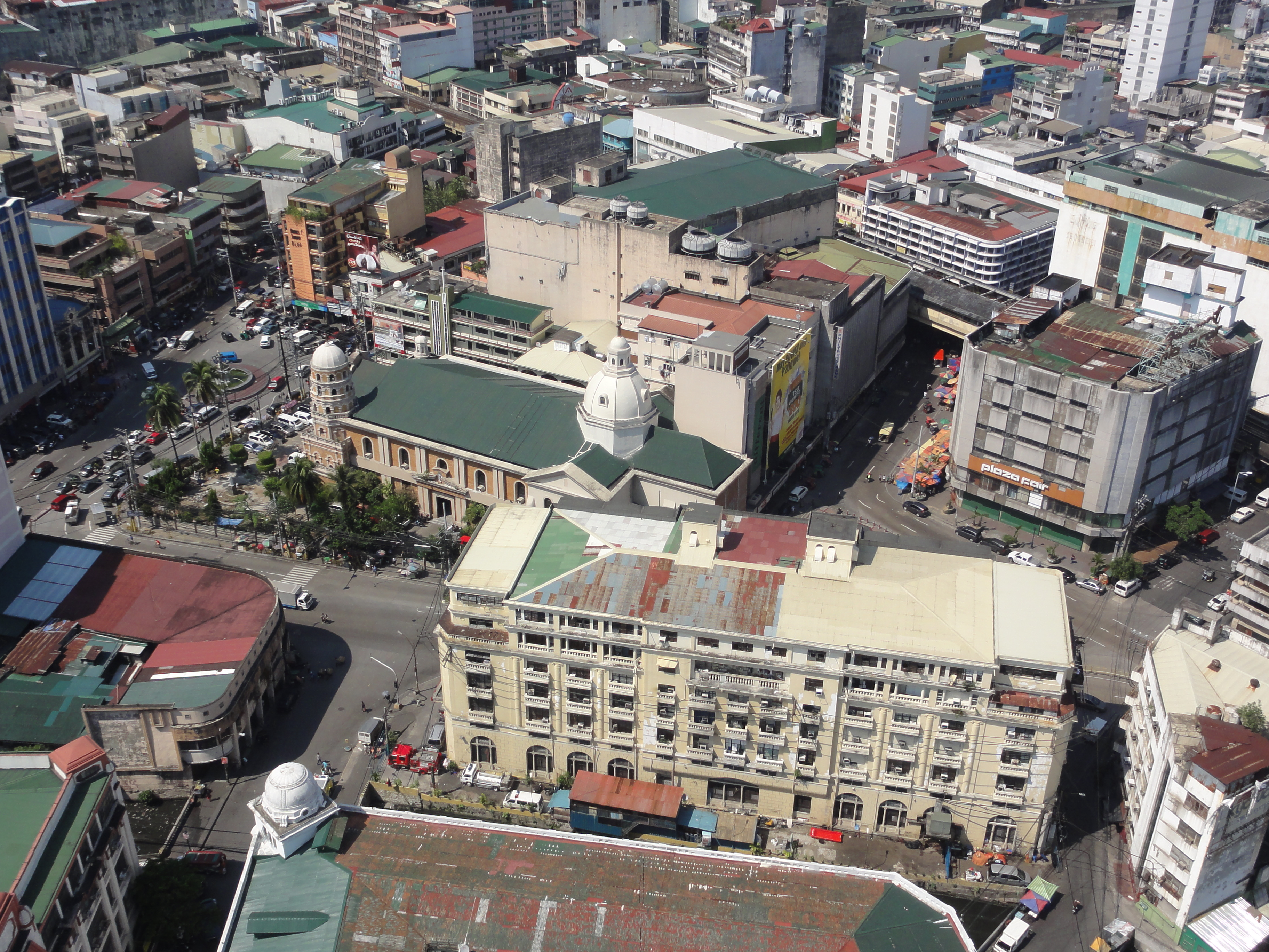 Top view of Plaza Lacson (formerly Plaza Goiti) in Santa Cruz, Manila as of June 2015. Also seen are Santa Cruz Church and Roman Santos Building (BPI).